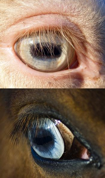 Comparison between the pale blue eyes of a homozygous cream horse (top) and dark blue unpigmented eyes (bottom).